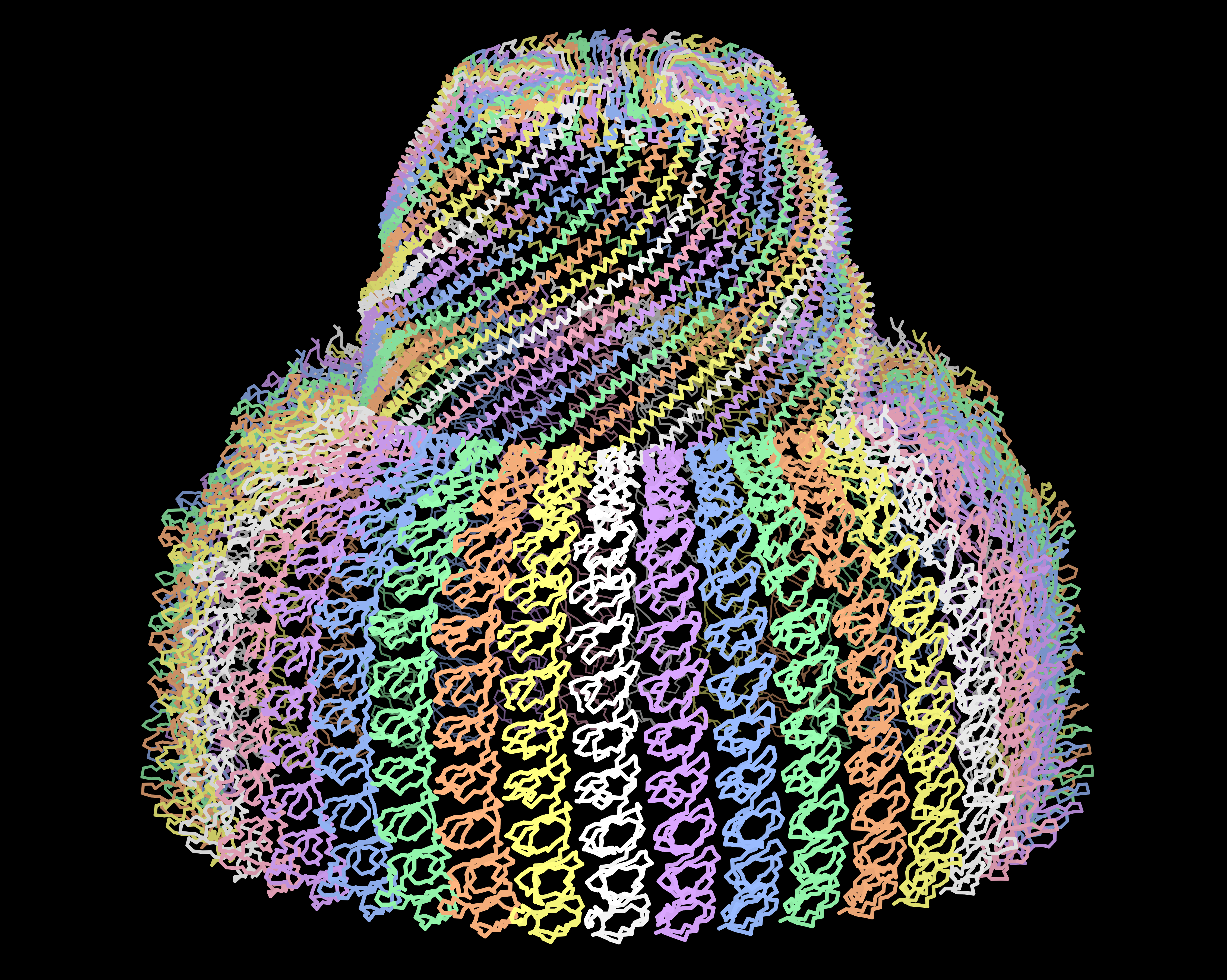 Vault protein cellular compartment structure. The 39 protein chains that swirl together to make up one symmetrical half of a vault complex: side view. From PDB files 2zuo, 2zv4, 2zv5.